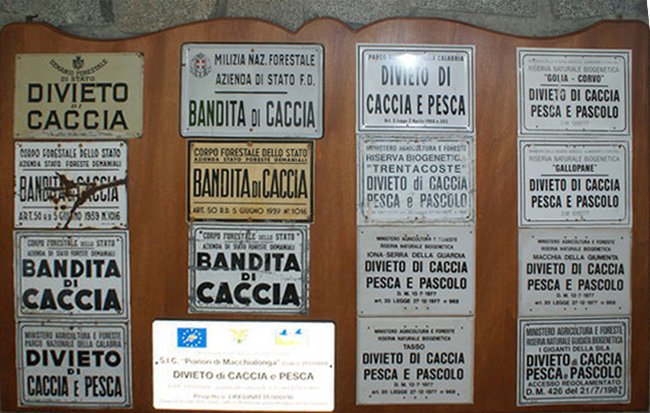 Tables of Prohibition at the Visitor Center Cupone - Sila National Park